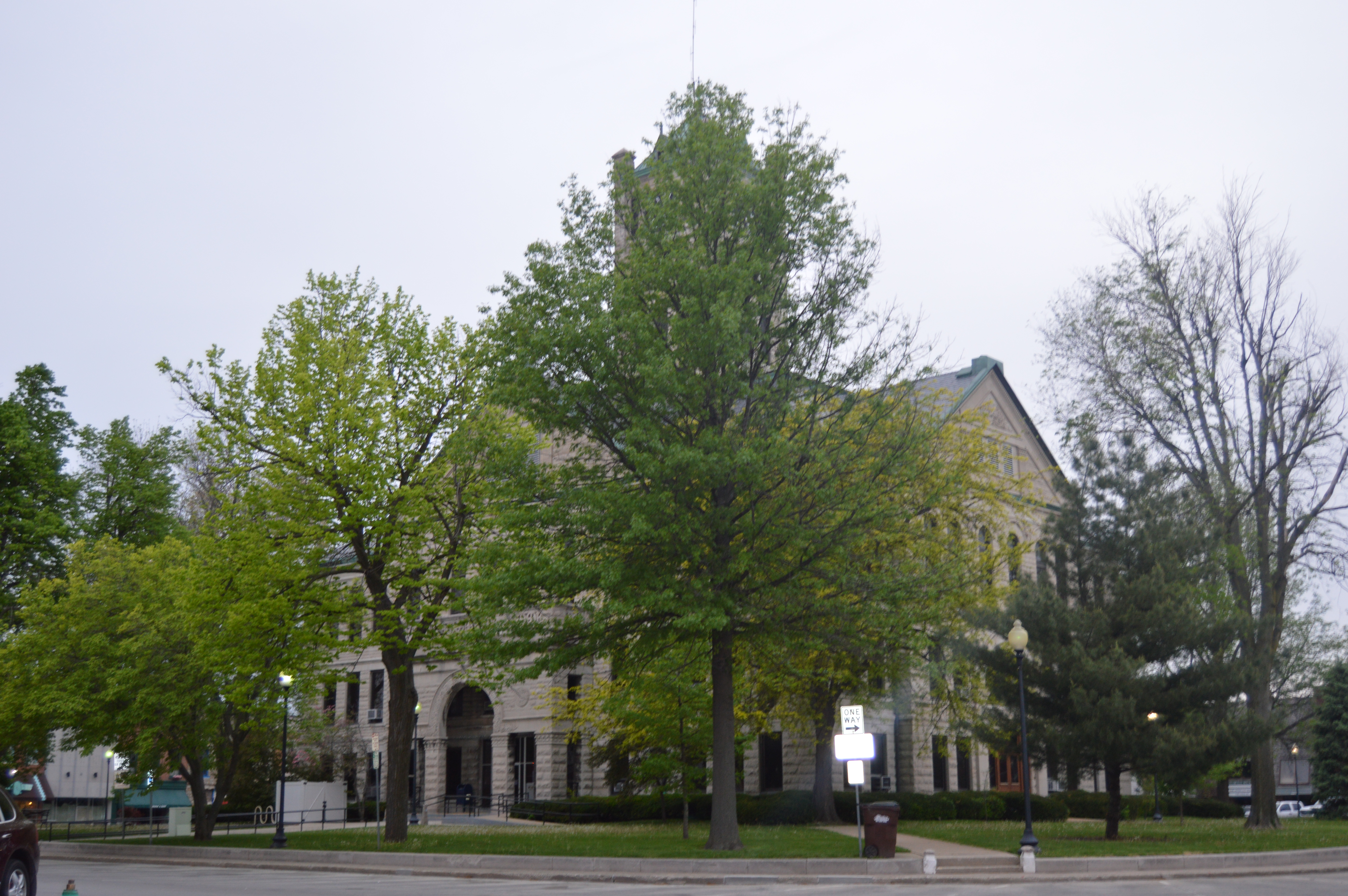 View from the southeast of the Christian County Courthouse, located on Courthouse Square in Taylorville, Illinois, United States. Built in 1902, it is part of the Taylorville Courthouse Square Historic District, a historic district that is listed on the National Register of Historic Places along with the rest of the park.